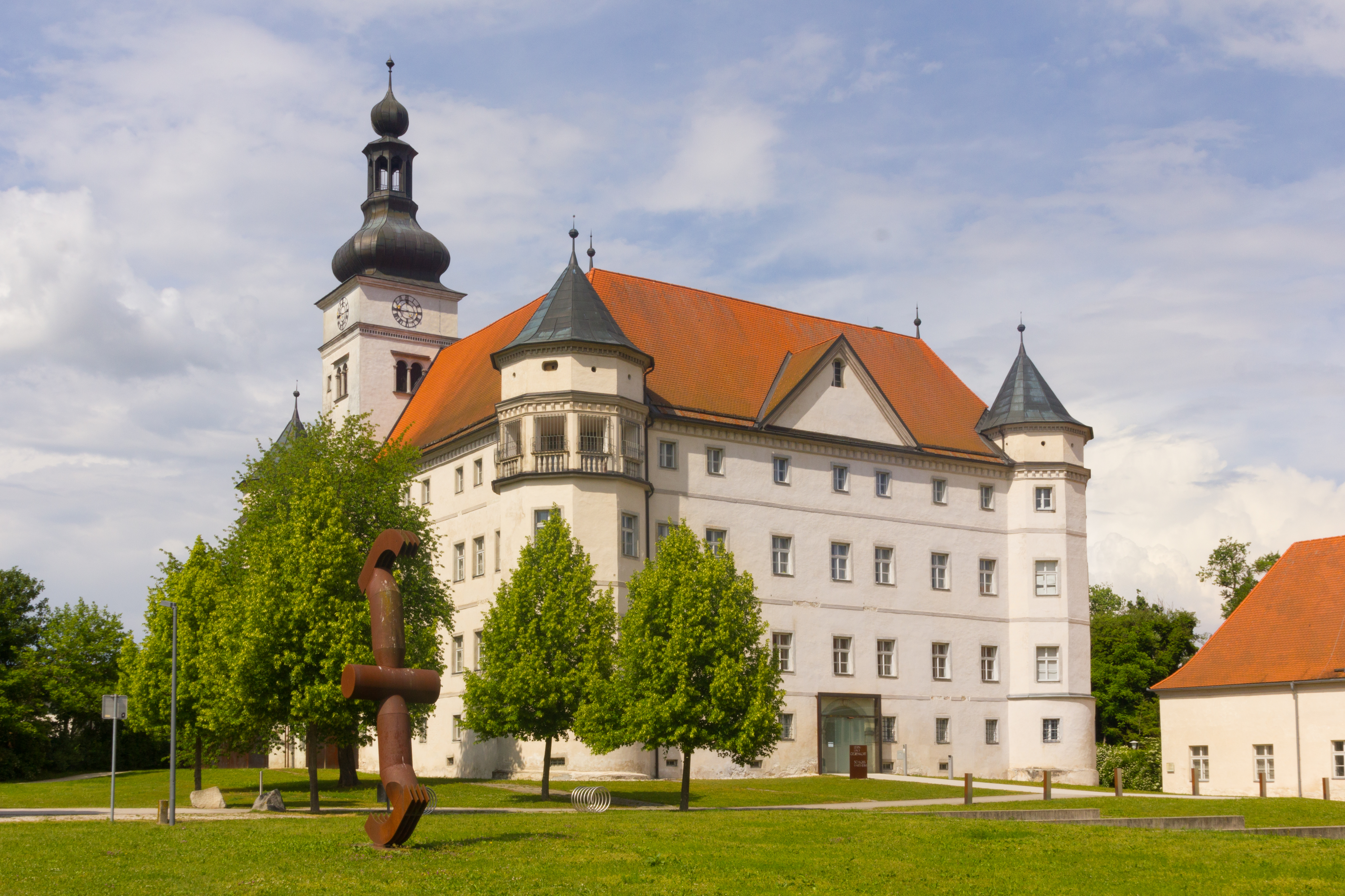 The southern and western side of Hartheim castle.